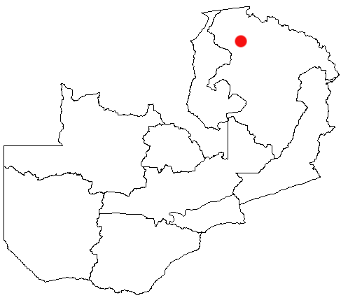 Mporokoso, Zambia Location Map; created with the GIMP.